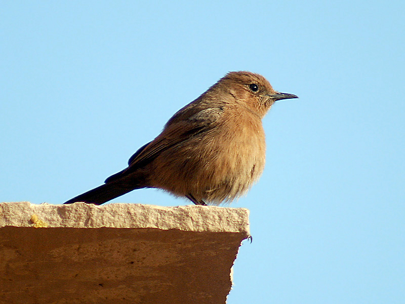 Brown Rock Chat (Cercomela fusca) at Hodal in Faridabad District of Haryana, India.